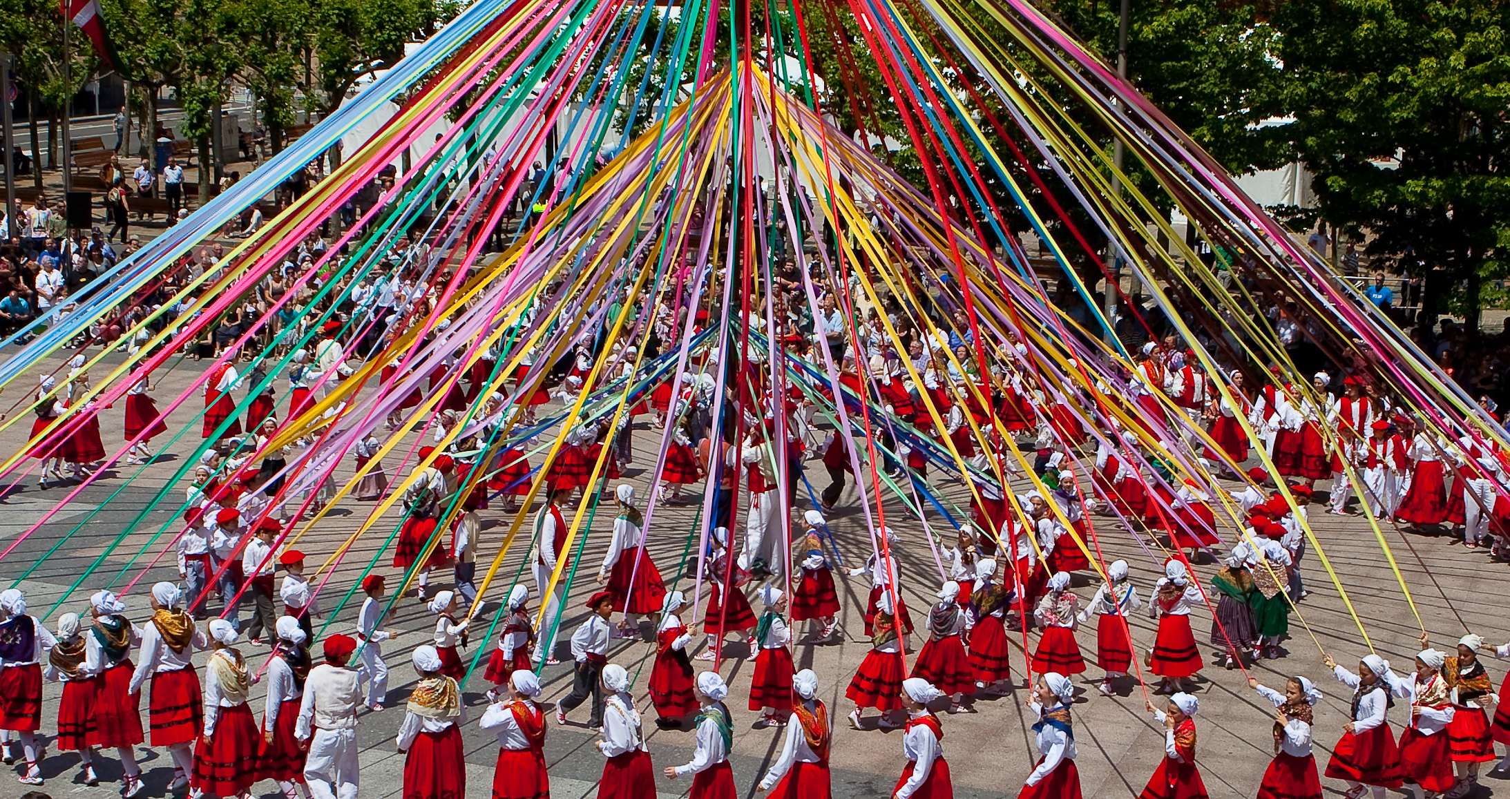 Euskal Jaixa (basque festival) in Eibar, 2012.